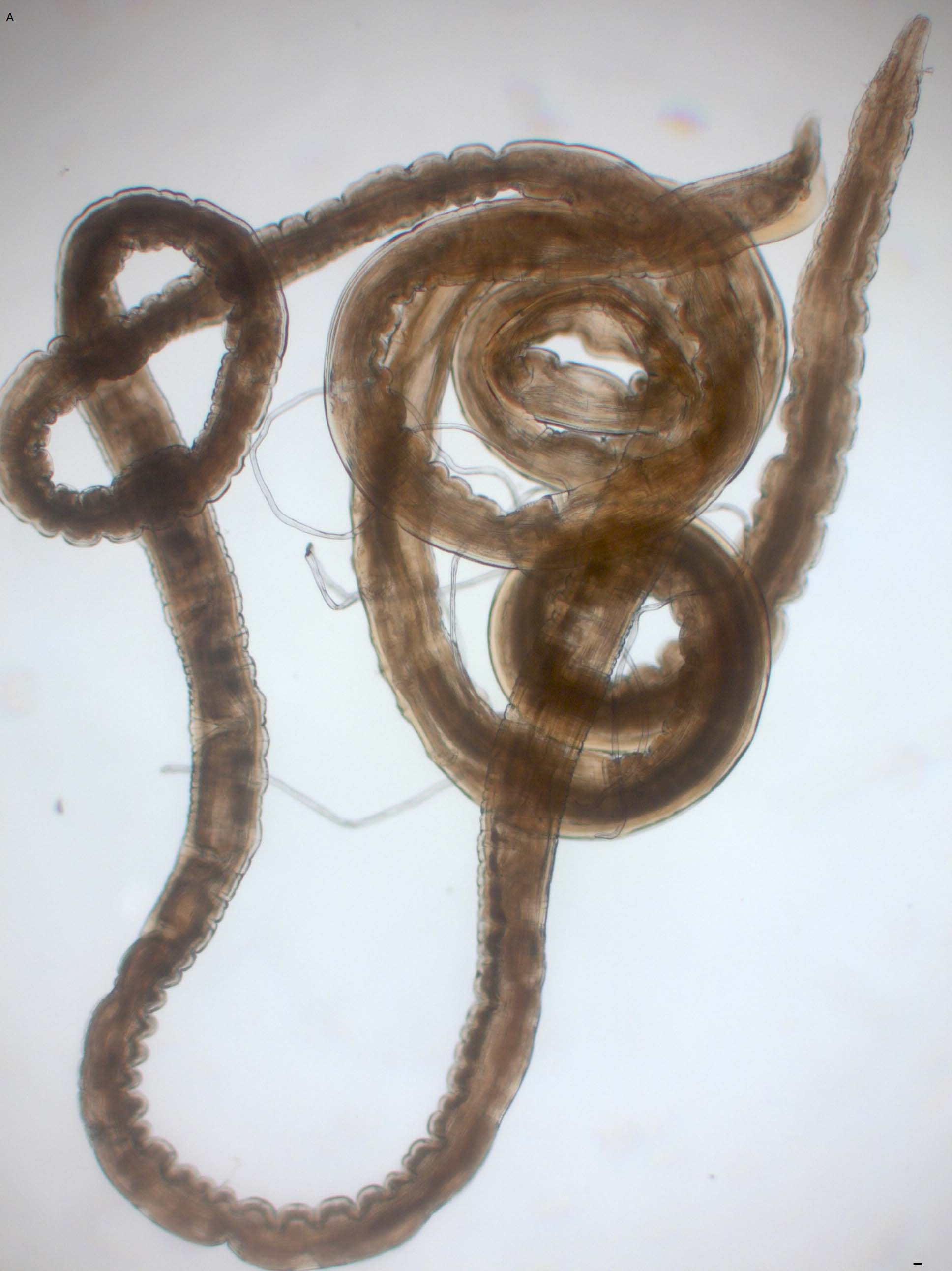 Entire male of Gongylonema pulchrum (Nematoda: Spirurida). Scale bar – 100 μm.